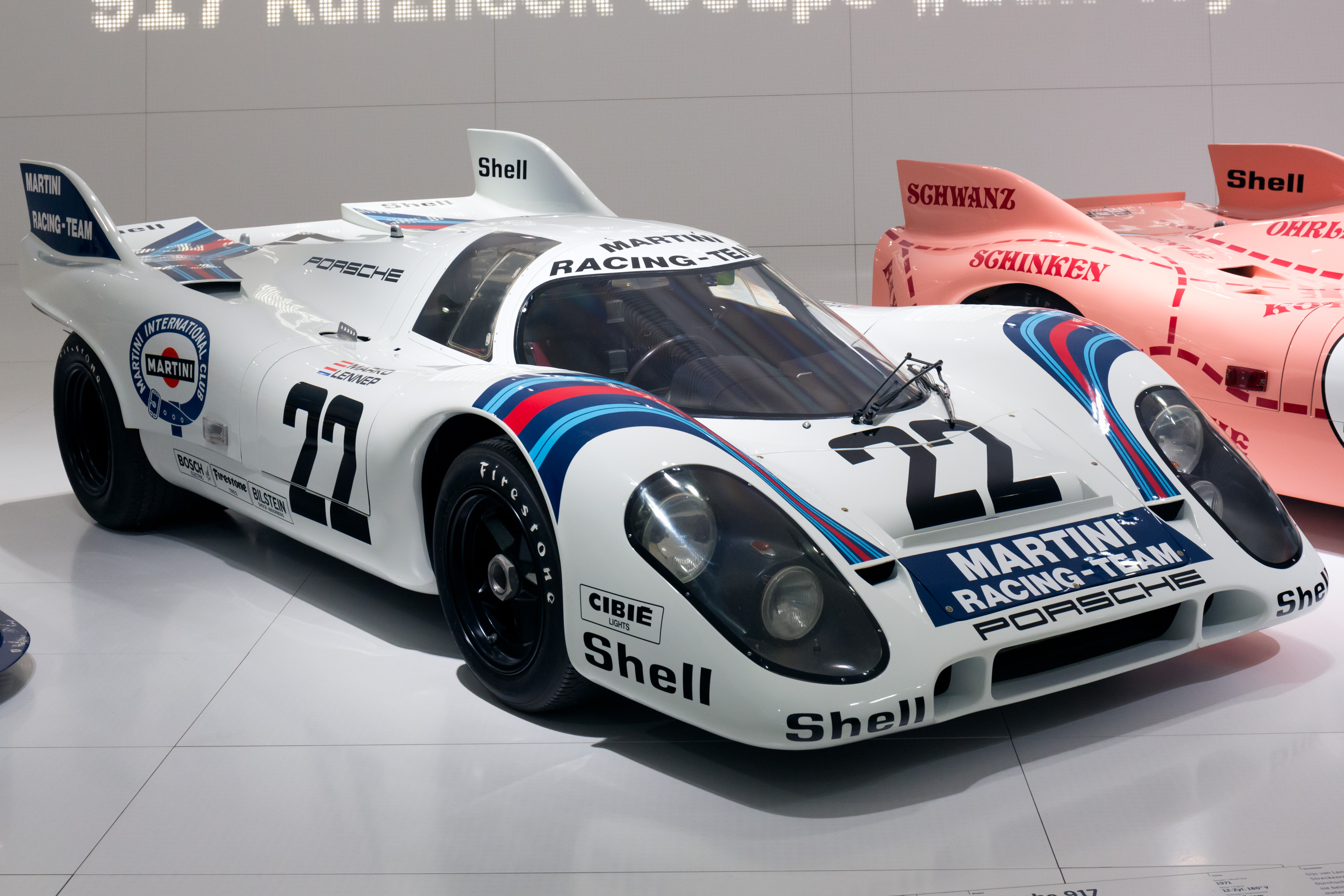 1971 Porsche 917 KH Coupe (Martini Racing); 1971 24 Hours of Le Mans winner